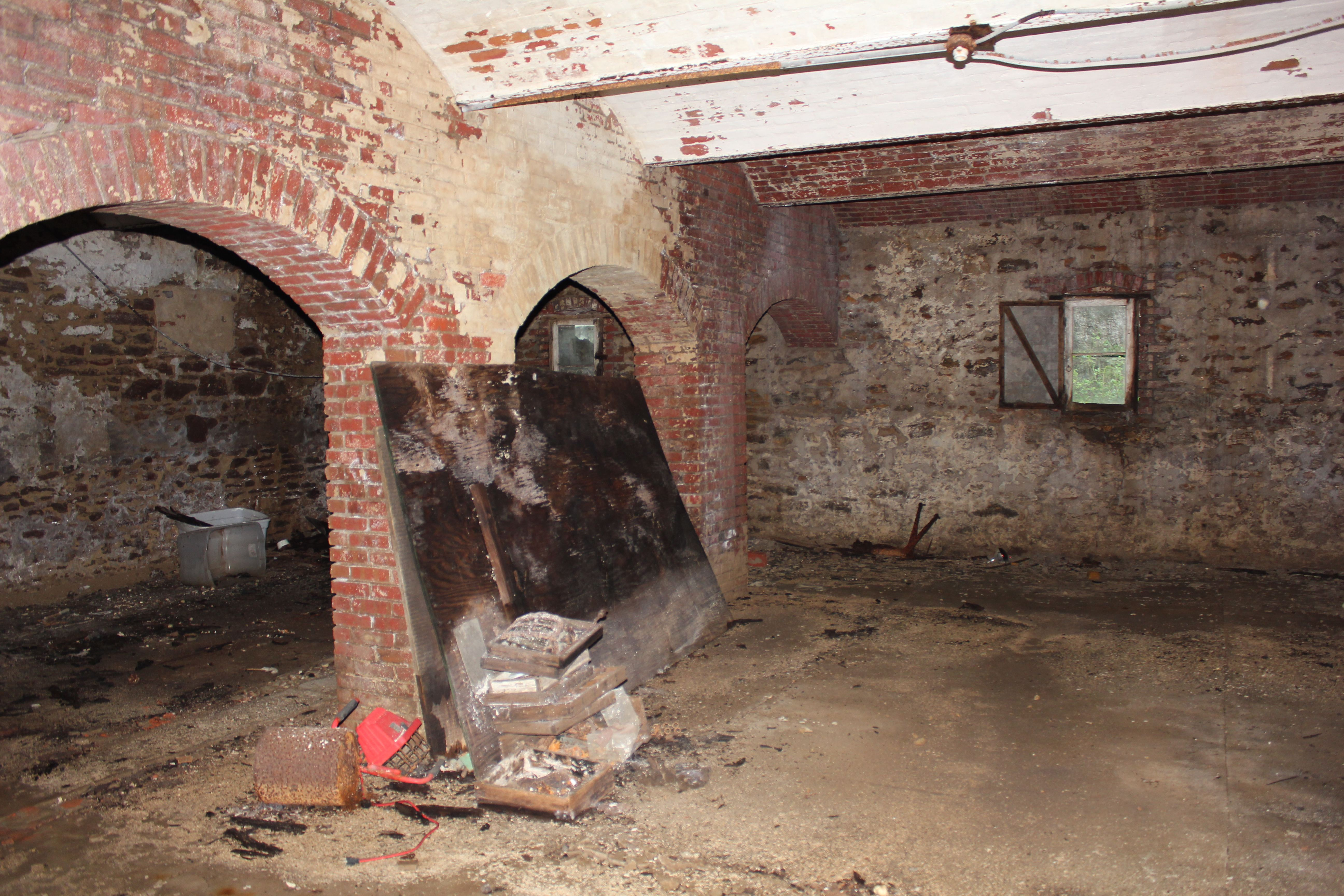 Wine cellar built by Capt. Charles Saalmann in Mullica Township, New Jersey.